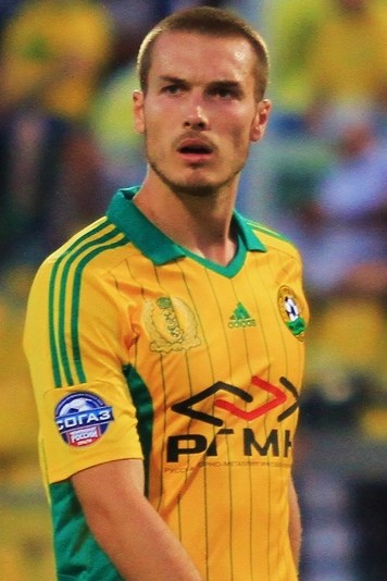 Toni Shunic 2014